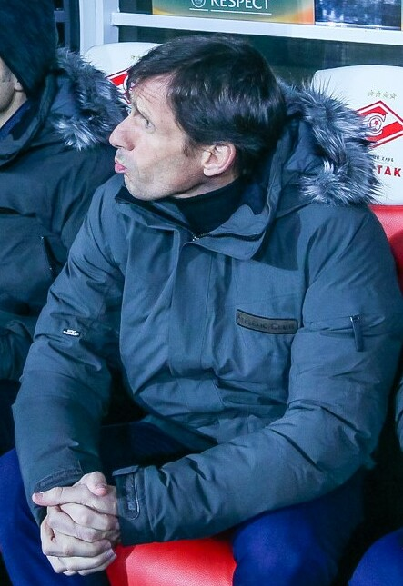 ANDONI IMAZ, JOSÉ ÁNGEL ZIGANDA, BINGEN AROSTEGI